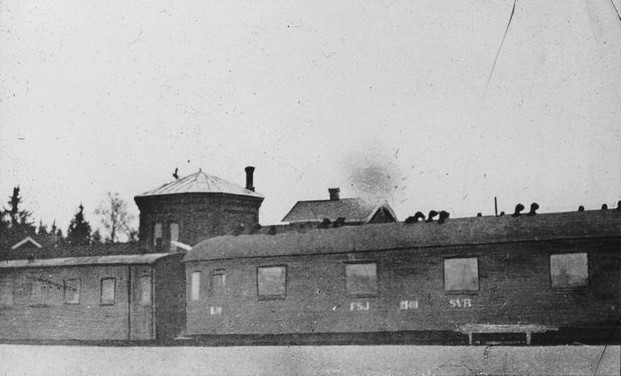 Red Guard artillery hits target by the Lempäälä railway station.